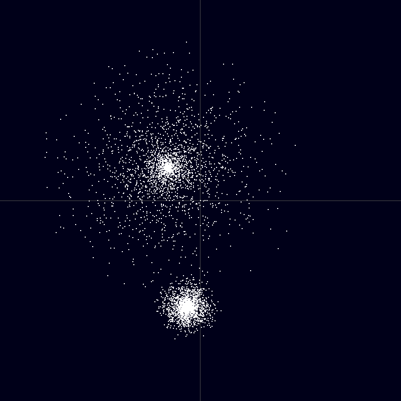 Initial particle distribution showing two two simulated galaxies.